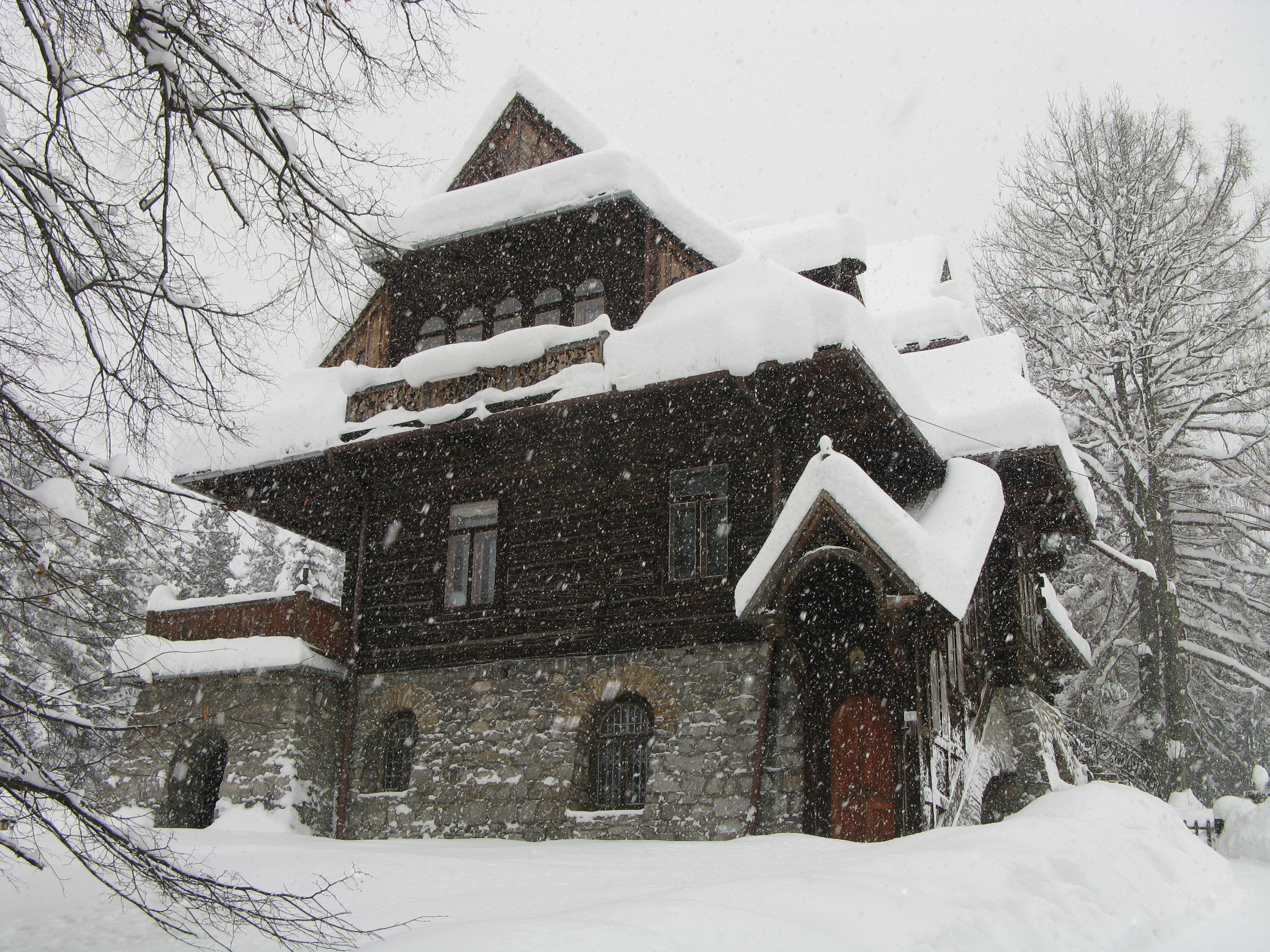 Pod Jedlami - villa in Zakopane